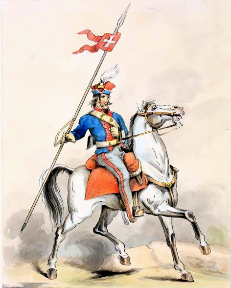 Bar confederate